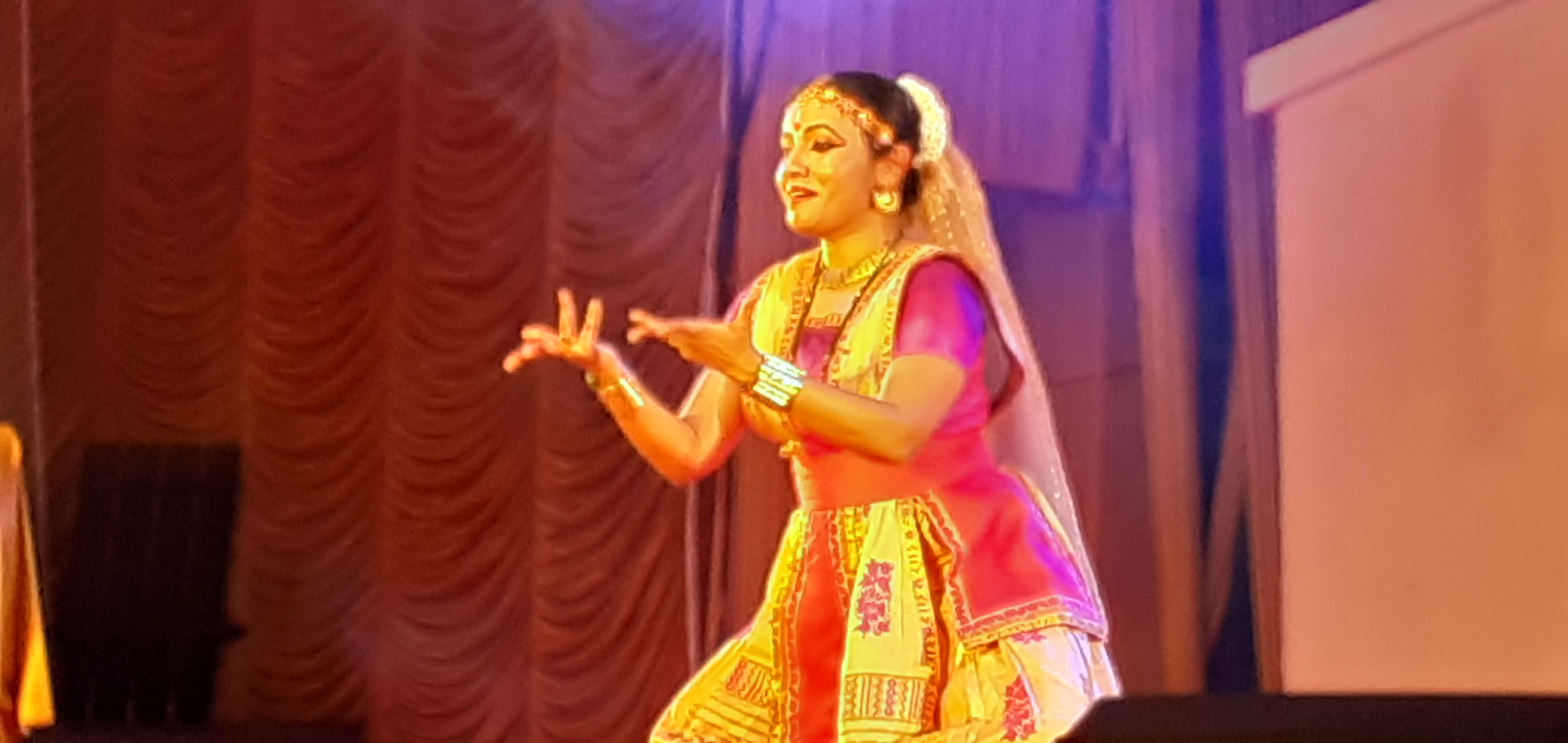 Anwesha mohantha is satriya dancer from assam